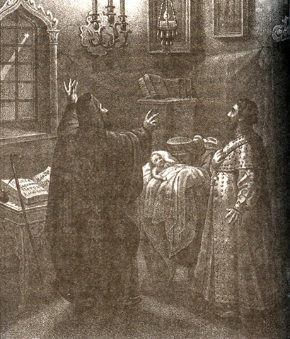 Birth of Peter I of Russia. An engraving for Nikolay Karamzin's „History of the Russian State“.